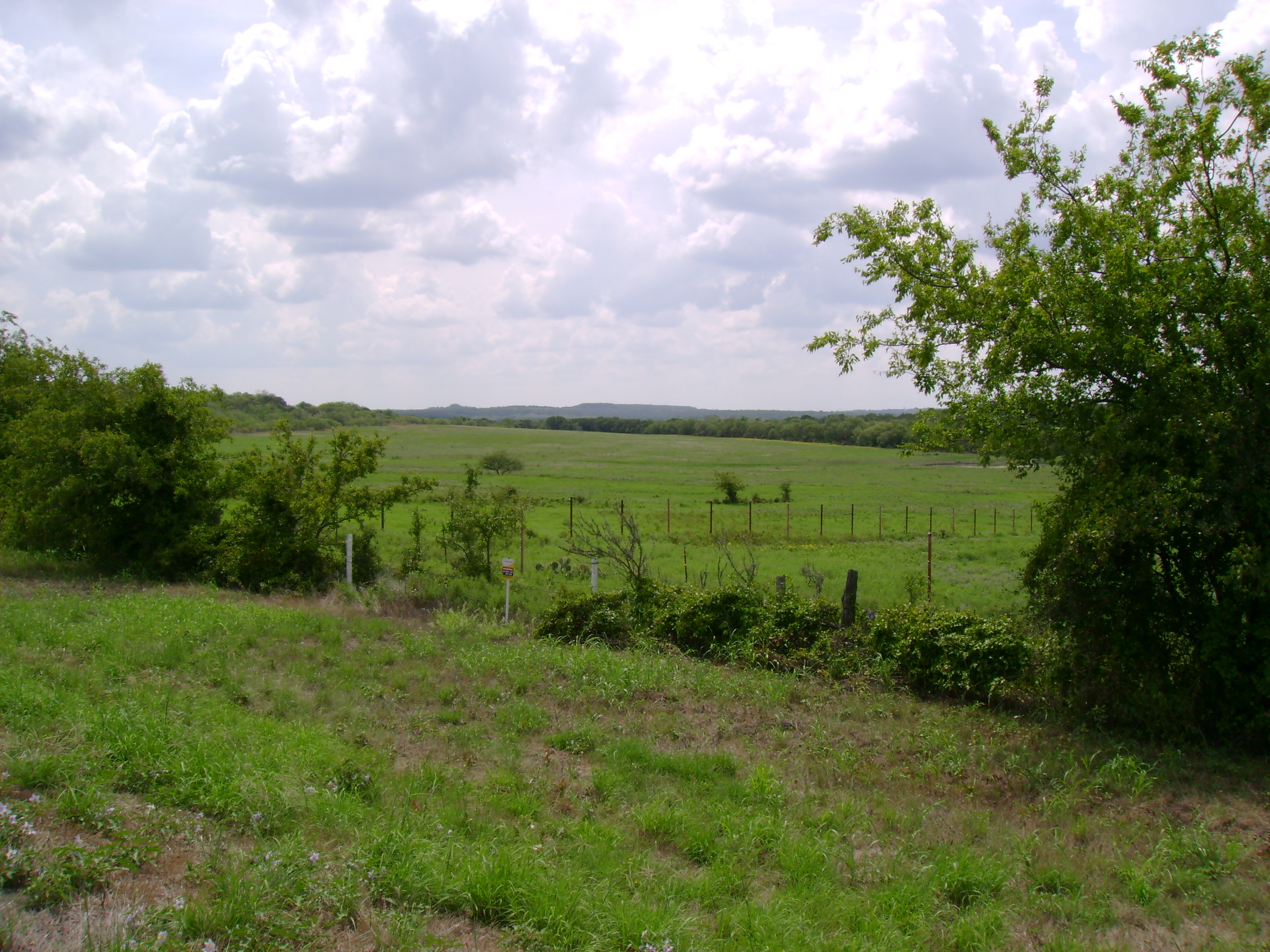 Rural scene in eastern Jack County, TX.